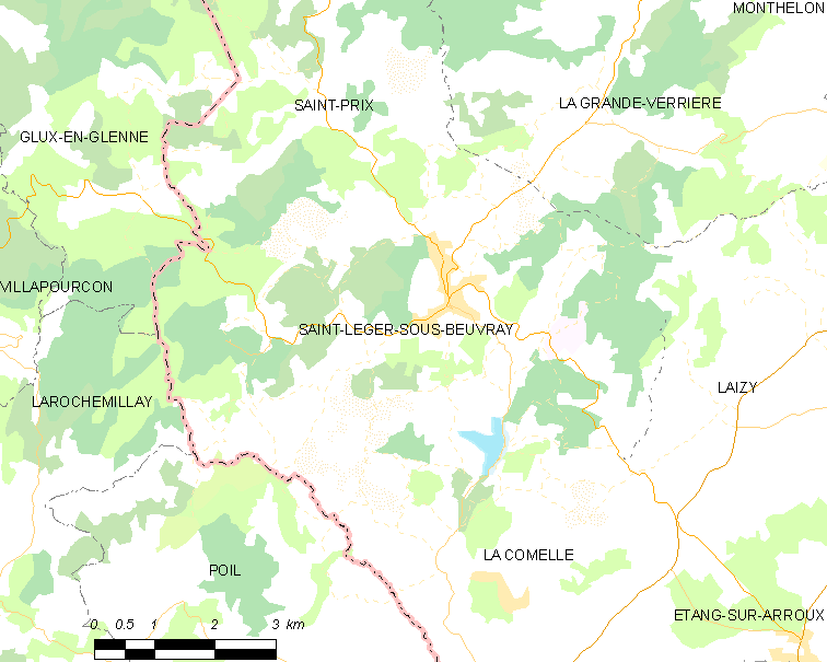 Map of French municipality